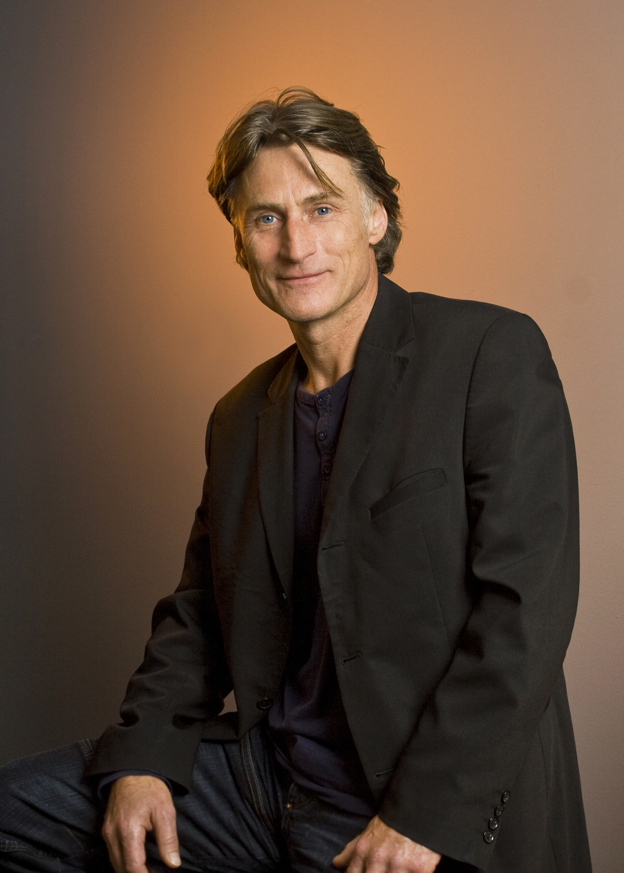 Jürgen Schmidt-André